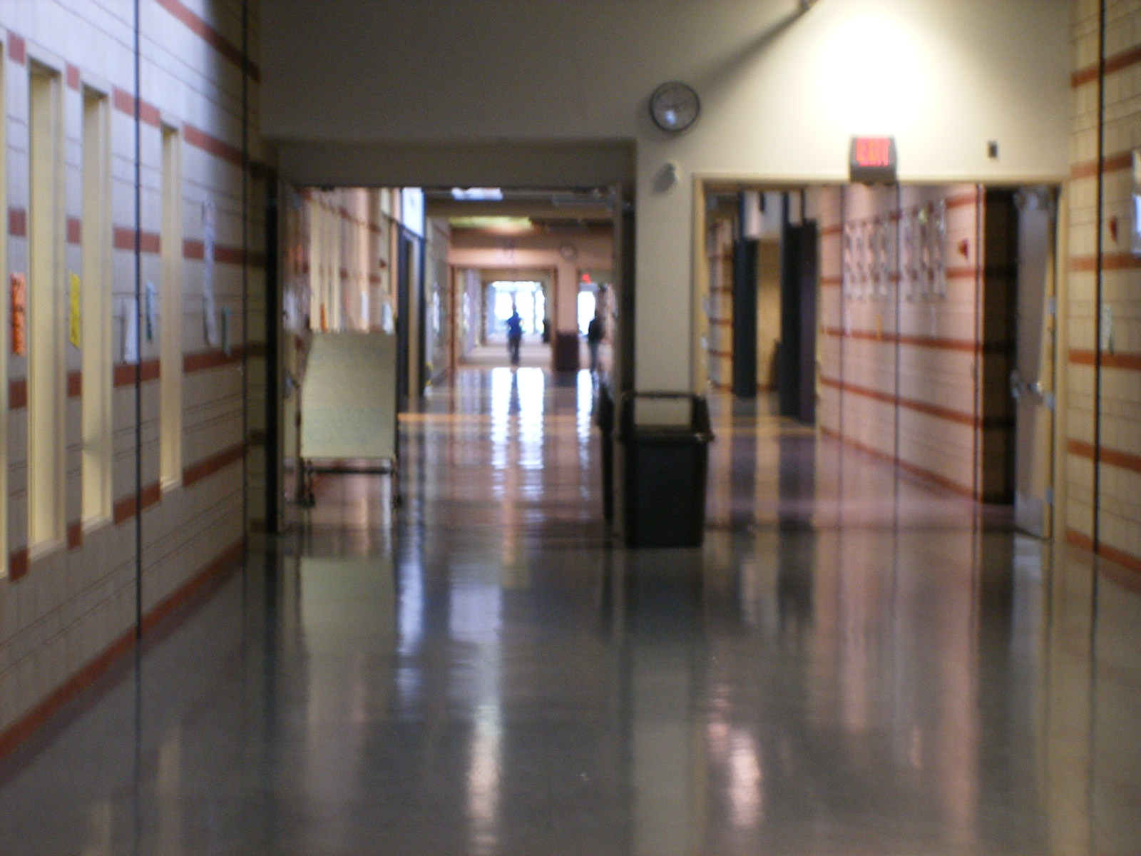 Chaska High School's main hallway; taken from purple house, looking towards green house.